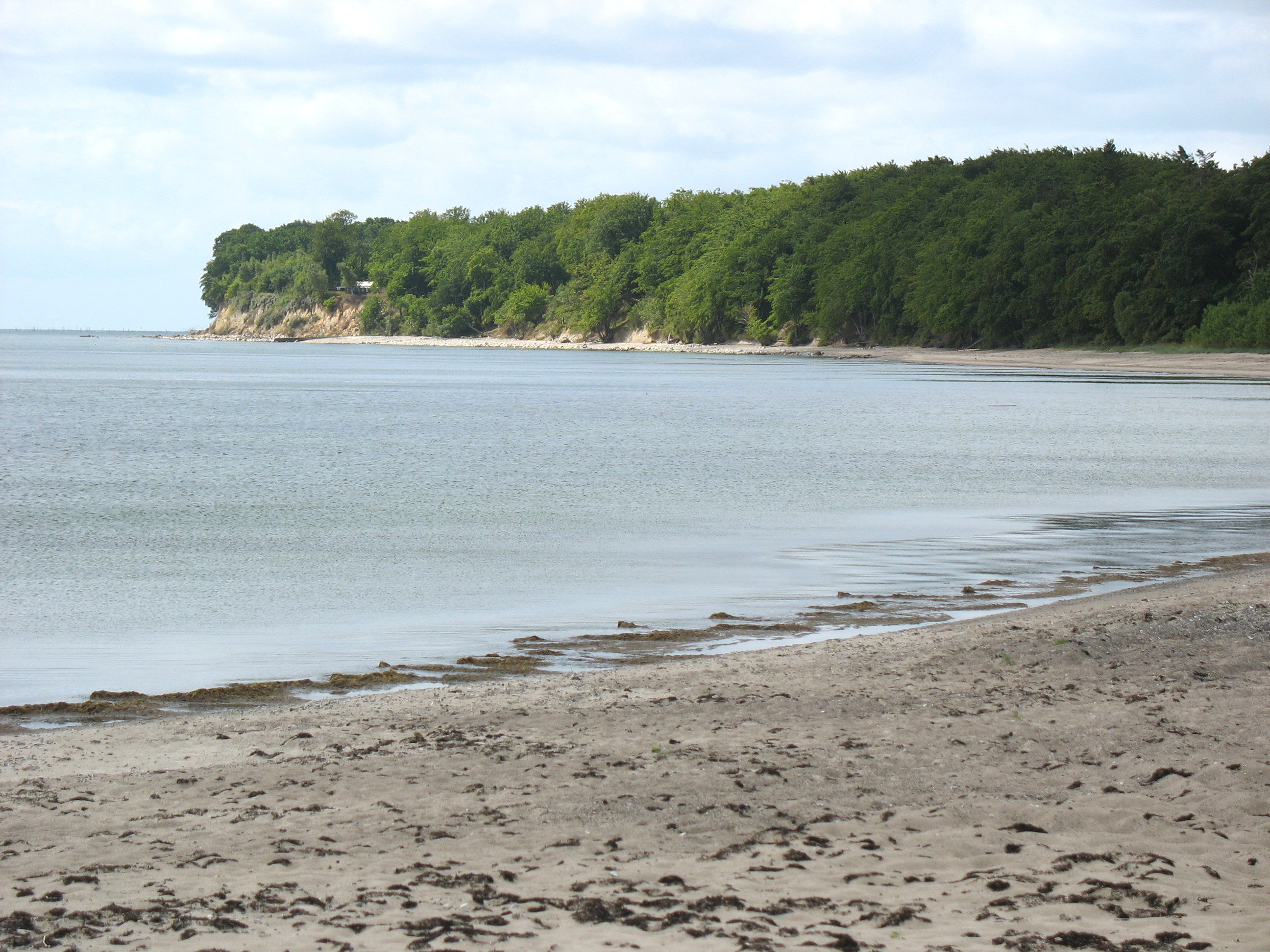 The cliff "Hesnæs Klint" located at the Danish island Falster in east Denmark.